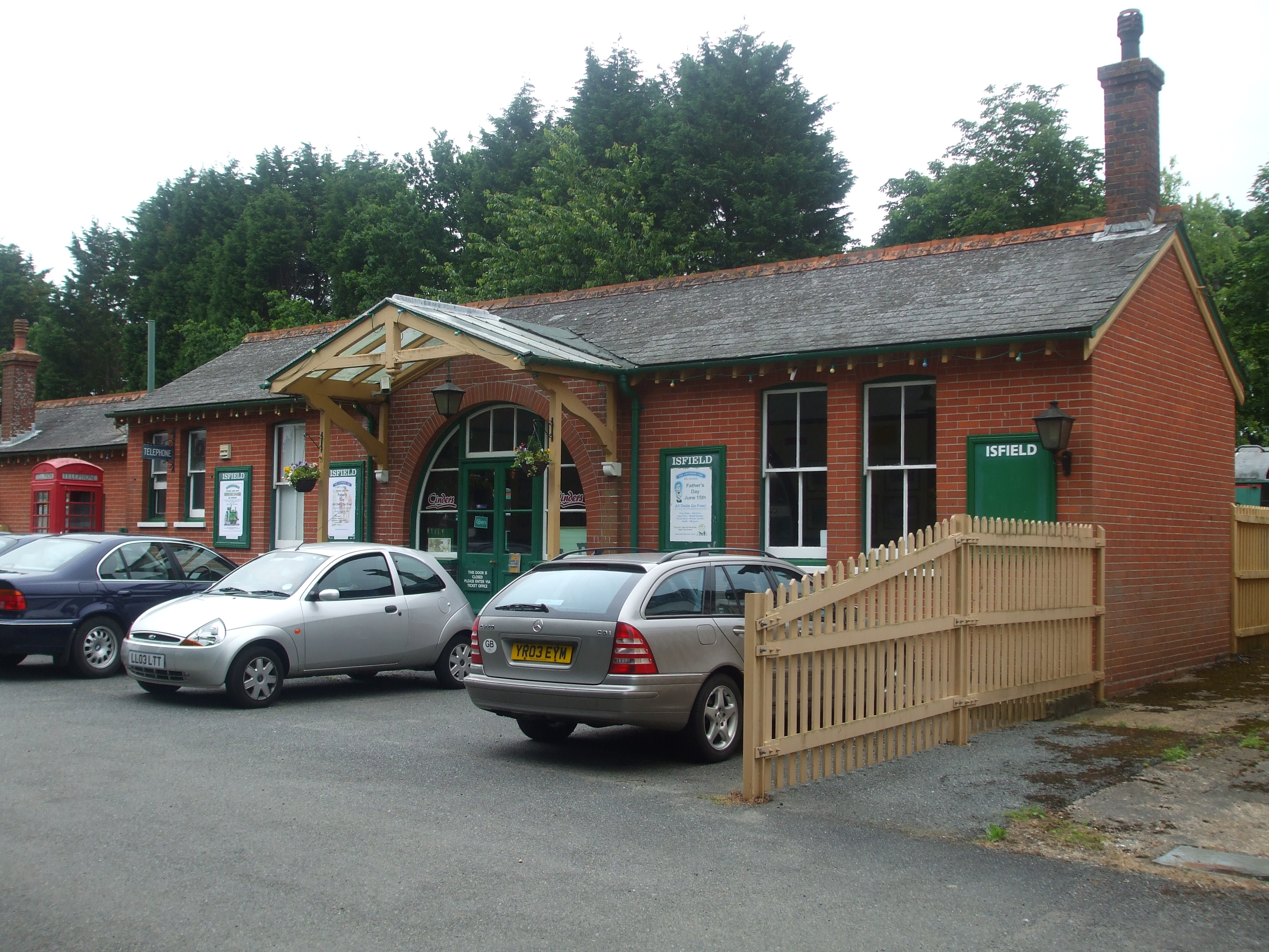 Isfield Railway Station, East Sussex